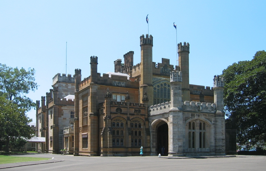 Government House, Sydney. Taken by Dudesleeper on December 11, 2006.